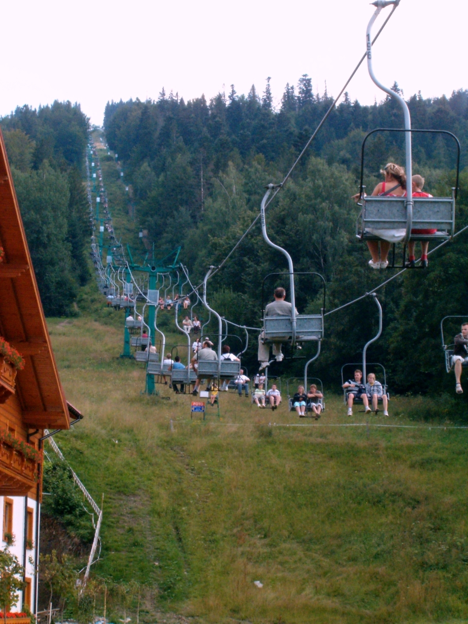 Chairlift in Szczyrk (Poland)